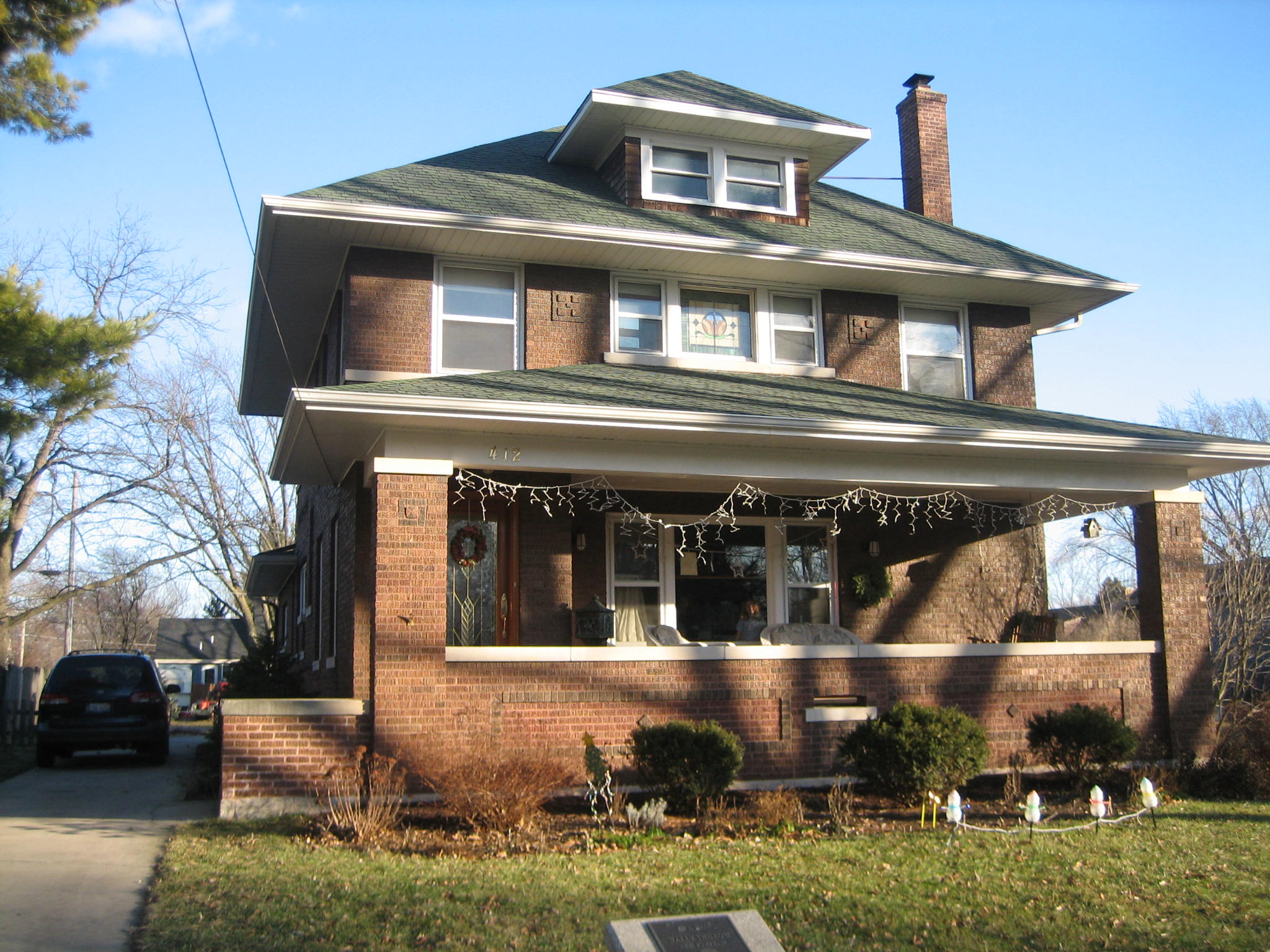 412 S. Main St., Wally "Mr. Pumpkin" Thurow House, Sycamore, Illinois. Sycamore Historic District, National Register of Historic Places.